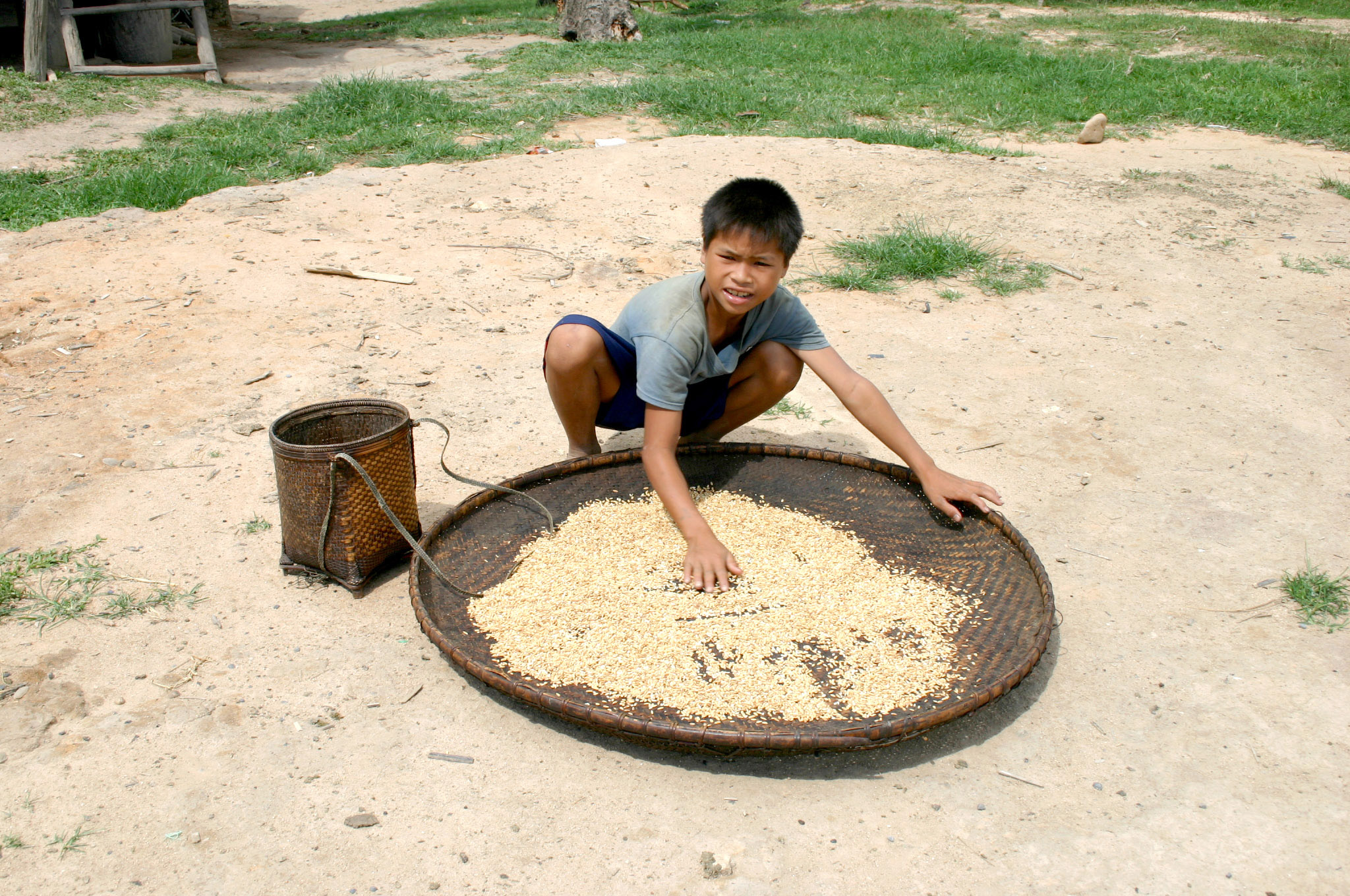 A Ta-Oy boy in Salavan (Saravan) province of Laos spreads rice to dry. The Ta-Oy are one of the 49 ethnic groups recognized by the Lao government; most live in the southern region of the country.